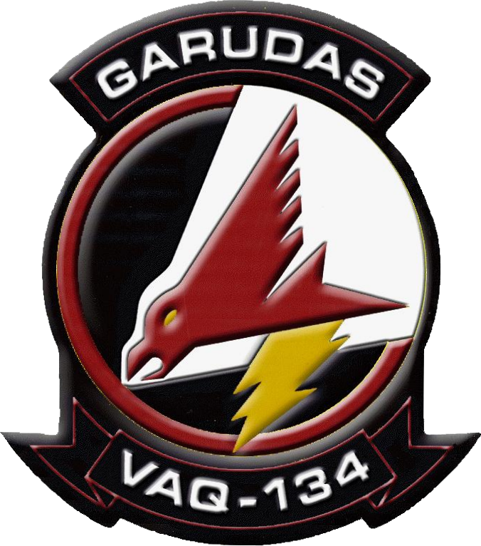 Insignia of the U.S. Navy Electronic Attack Squadron 134 (VAQ-134) "Garudas". The insignia was approved on 22 November 1969.